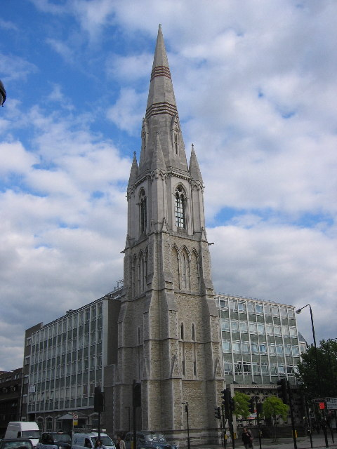 Christchurch & Upton Chapel, Lambeth North, London. Built 1873. It was destroyed by bombing in 1940 but the tower was retained in the new chapel and office development. It is now the home of an "internet church" - " "